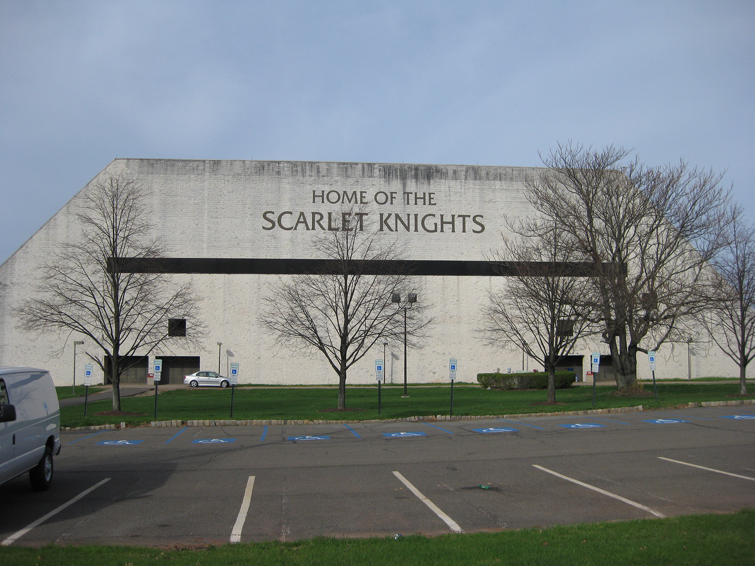 Louis Brown Athletic Center on Rutgers University's Livingston Campus, Piscataway, New Jersey